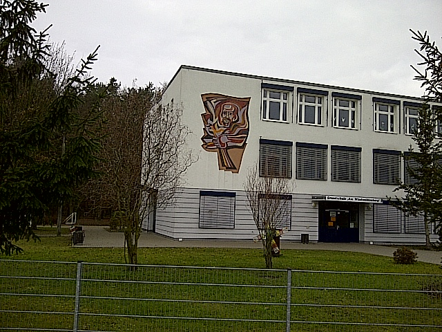 Socialistic art in Neuhardenberg